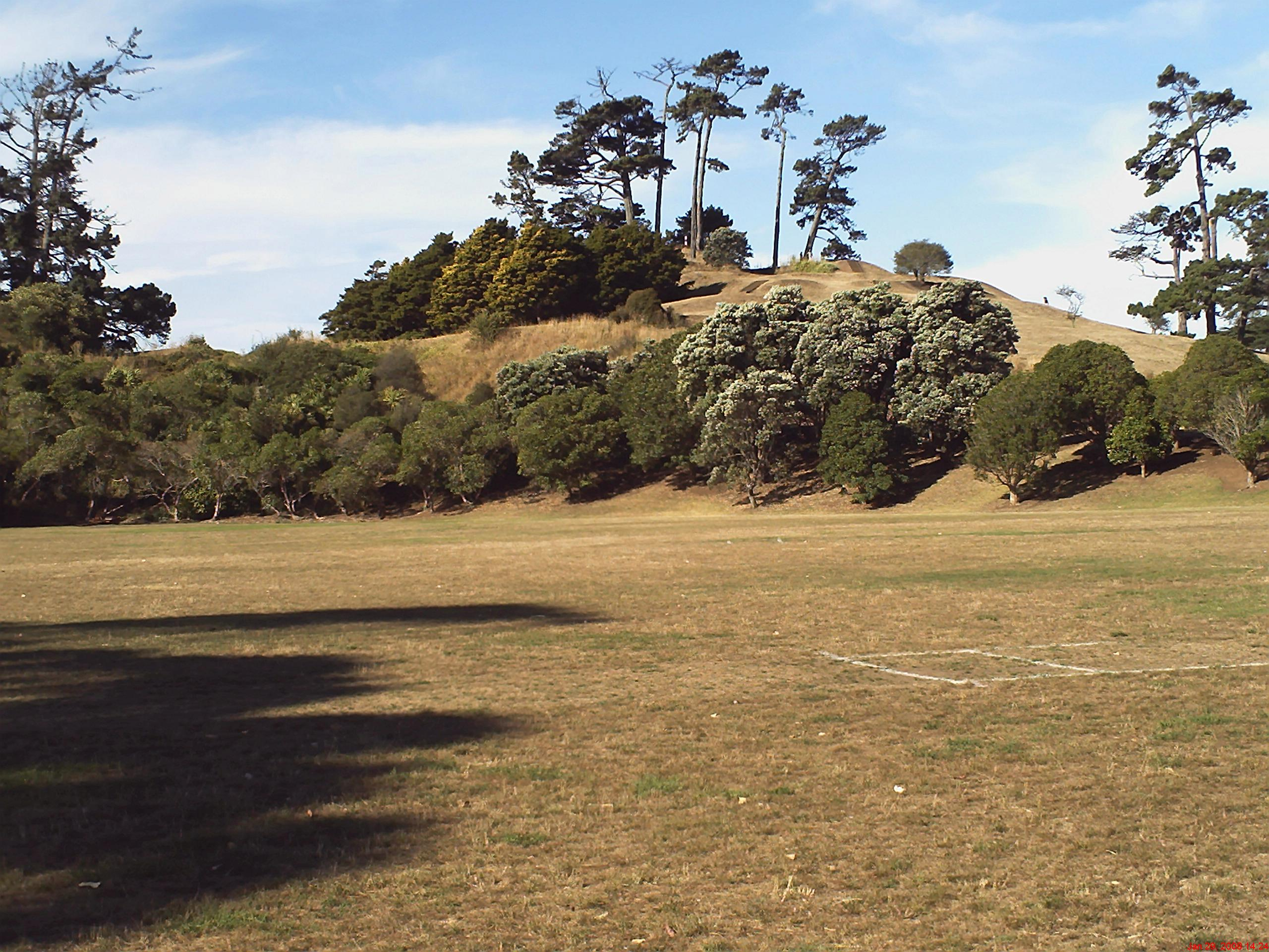 A self-made photograph that depicts Pigeon Mountain and a part of the playing field that surrounds it